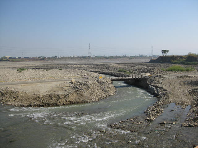 The bridge over Maoluo River,near the estuary of Maoluo River in Taiwan,flowing into Wu River,seen from Changhua.